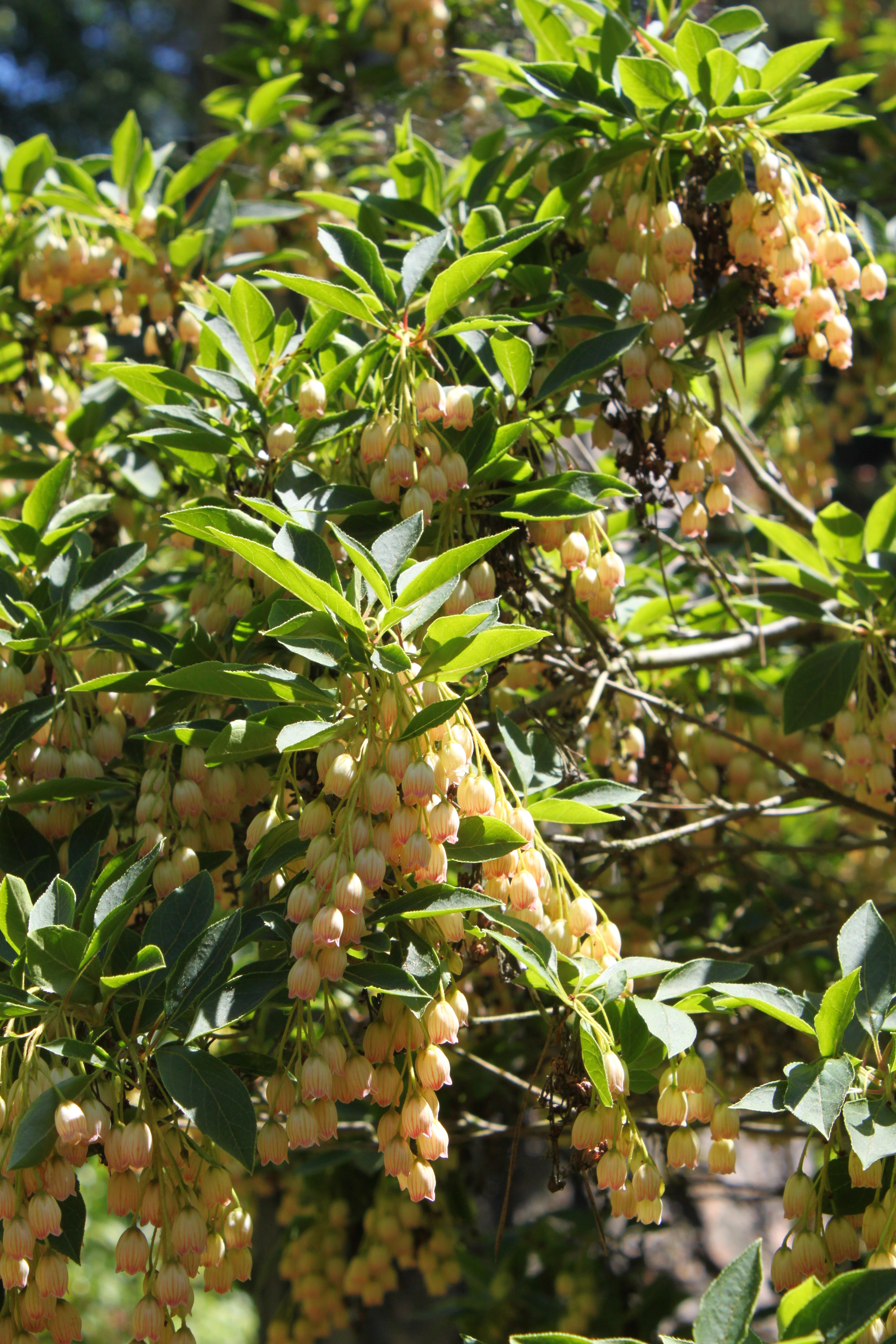 Enkianthus campanulatus flowers in Rogów Arboretum, Poland